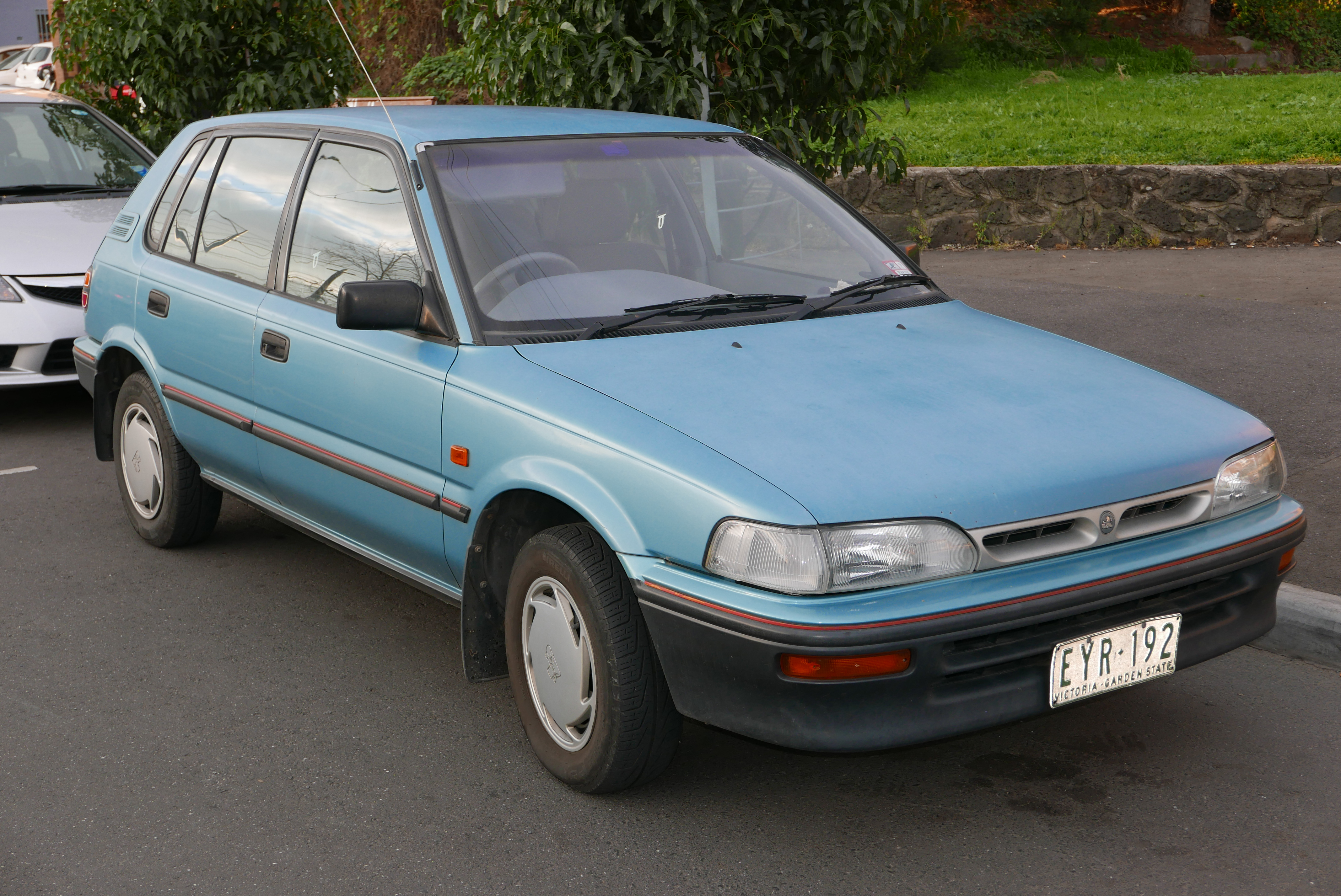 1992 Holden Nova (LF) SLX hatchback. Photographed in Northcote, Victoria, Australia. Vehicle registration enquiry results Jurisdiction Victoria Registration EYR192 Chassis code 6T154AZ9409762166 Engine code 4A9152582 Compliance date 1992-08 Year of manufacture 1992